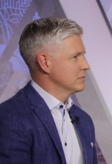 CBC Calgary